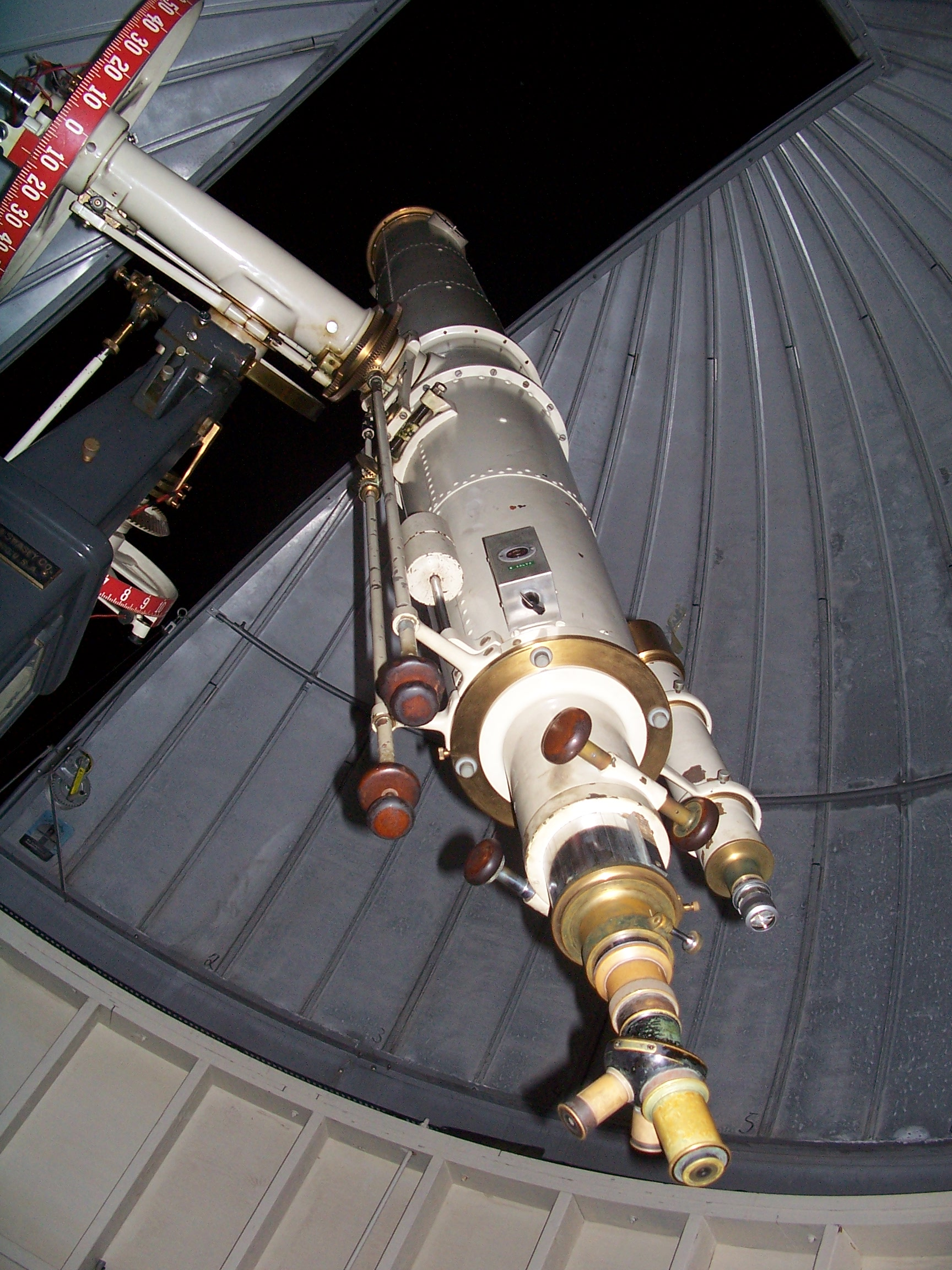 An image of the Warner and Swasey 9.5" refracting telescope on the roof of the A. W. Smith building at Case Western Reserve University.